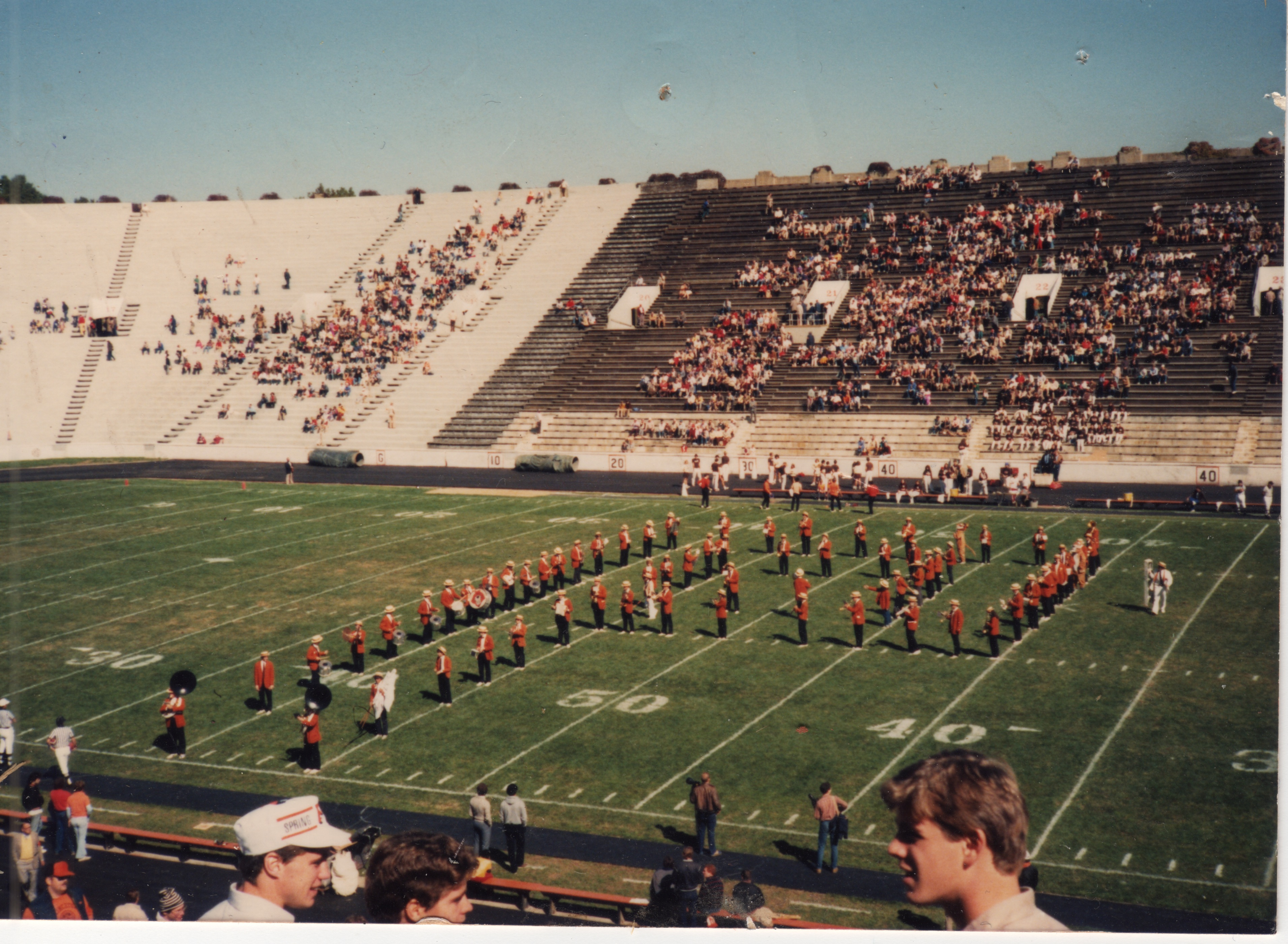 The P.U. Band in the fall of 1984 performing its signature Double Double Rotating P